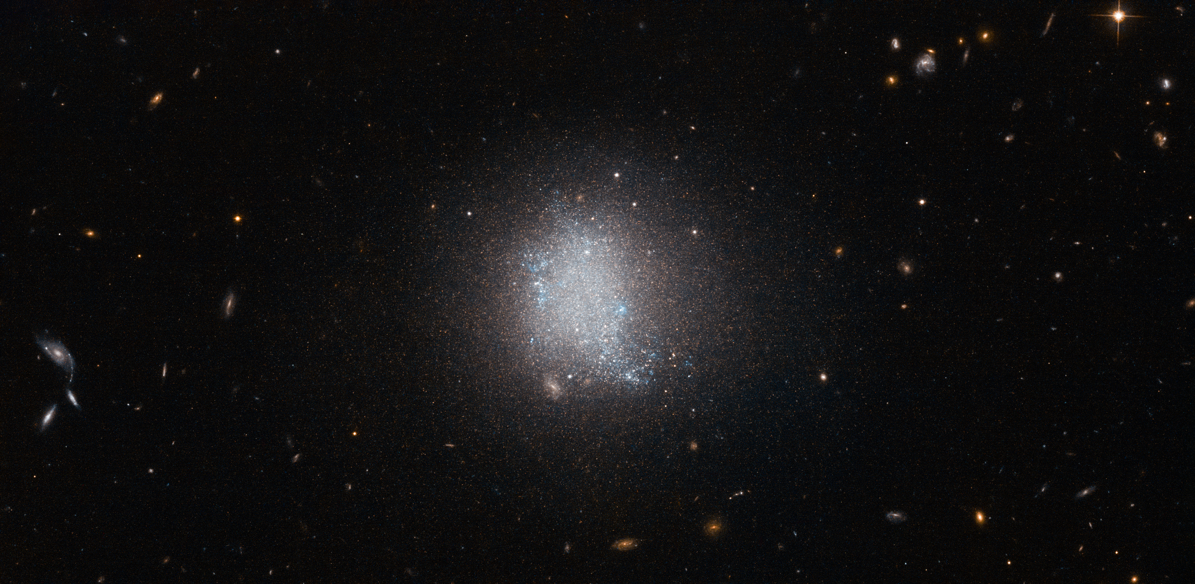 The smudge of stars at the centre of this NASA/ESA Hubble Space Telescope image is a galaxy known as UGC 5797. UGC 5797 is an emission line galaxy, meaning that it is currently undergoing active star formation. The result is a stellar population that is constantly being refurbished as massive bright blue stars form. Galaxies with prolific star formation are not only veiled in a blue tint, but are key to the continuation of a stellar cycle. In this image UGC 5797 appears in front of a background of spiral galaxies. Spiral galaxies have copious amounts of dust and gas — the main ingredient for stars — and therefore often also belong to the class of emission line galaxies. Spiral galaxies have disc-like shapes that drastically vary in appearance depending on the angle at which they are observed. The collection of spiral galaxies in this frame exhibits this attribute acutely: Some are viewed face-on, revealing the structure of the spiral arms, while the two in the bottom left are seen edge-on, appearing as plain streaks in the sky. There are many spiral galaxies, with varying colours and at different angles sprinkled across this image — just take a look. A version of this image was entered into the Hubble’s Hidden Treasures image processing competition by Luca Limatola.